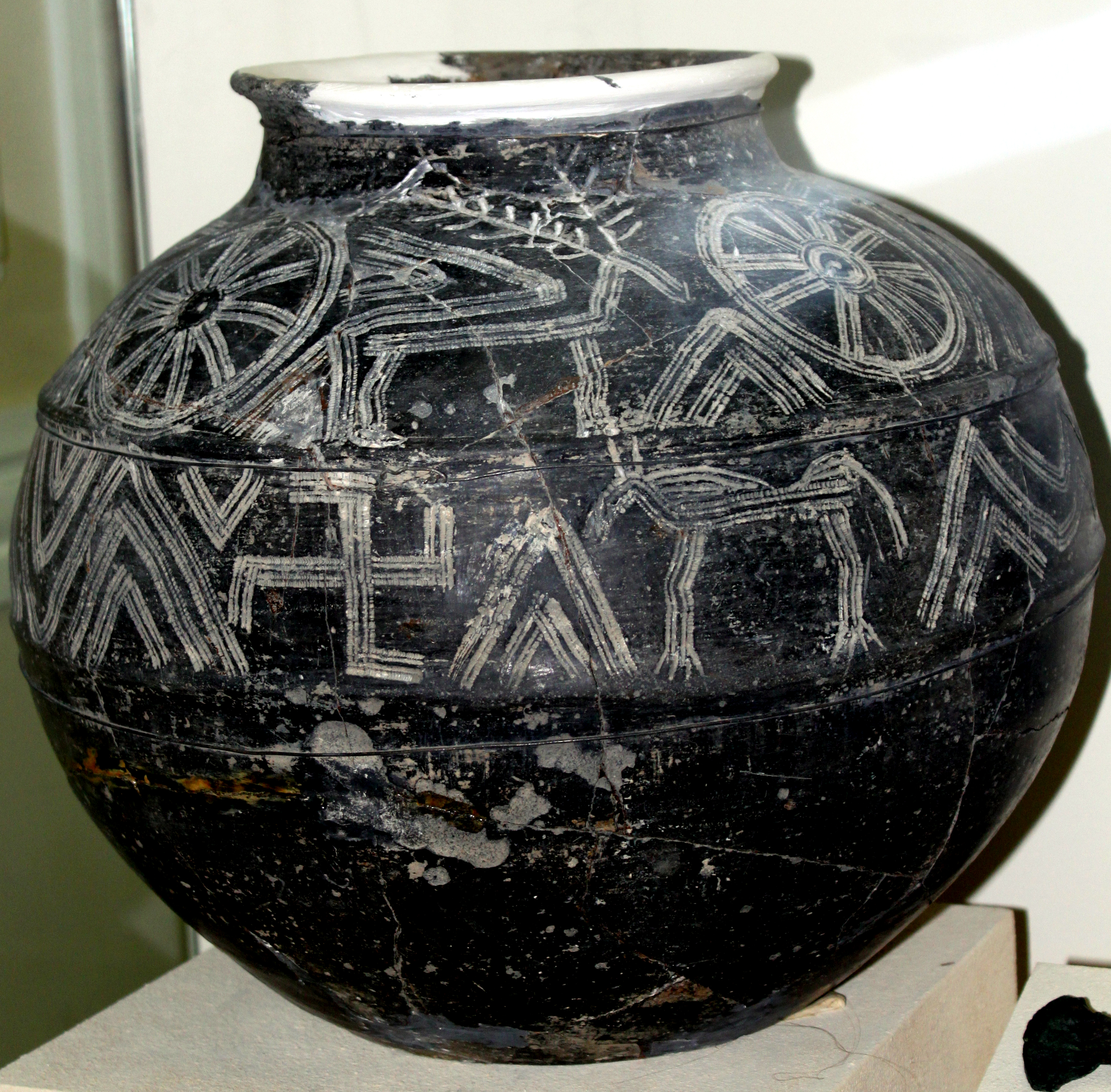 Pasta_ilə_inkrustasiya_olunmuş_gil_qab,_Gəncə, Gillikdağ